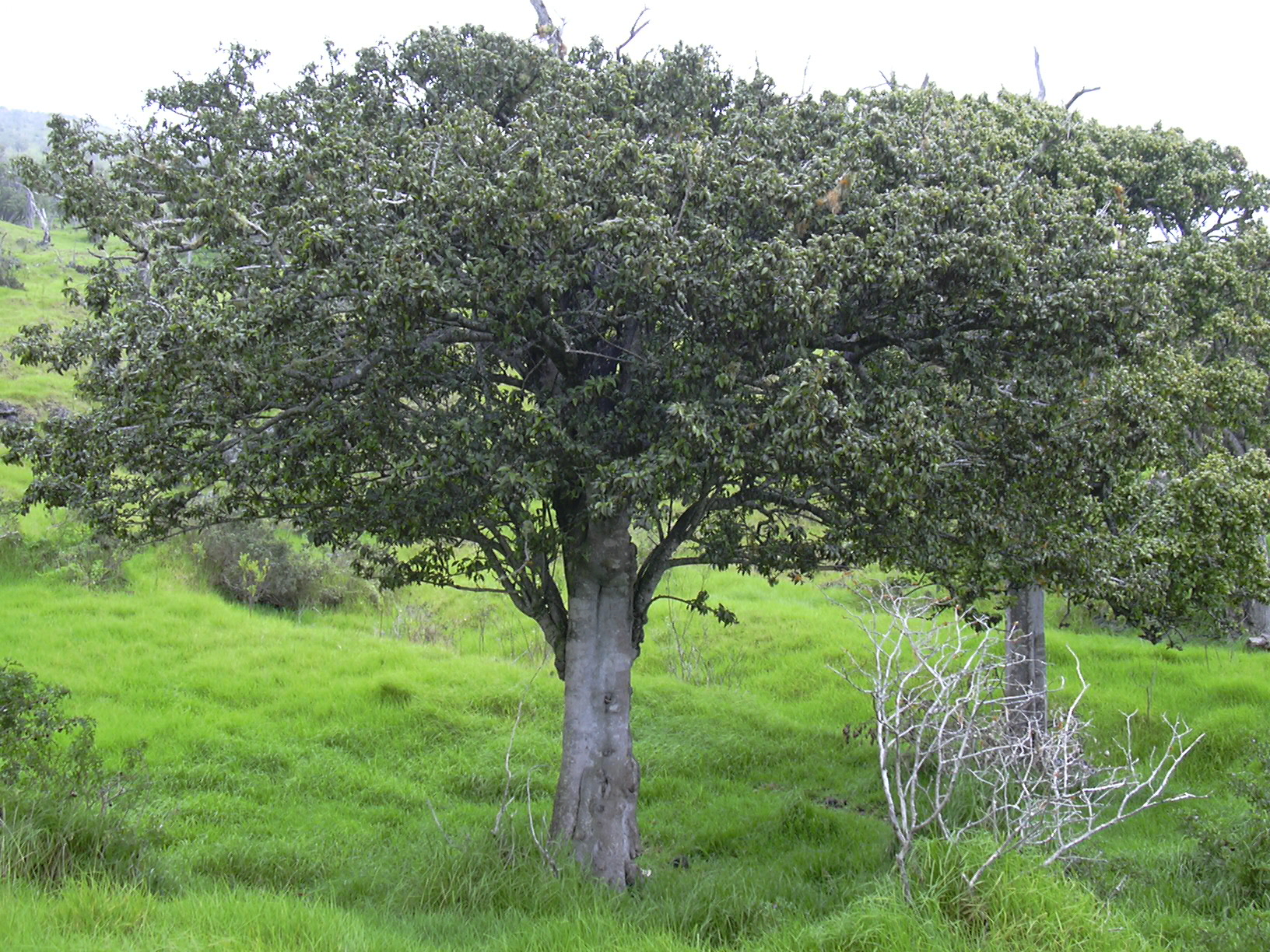 Streblus pendulinus (habit). Location: Maui, Auwahi